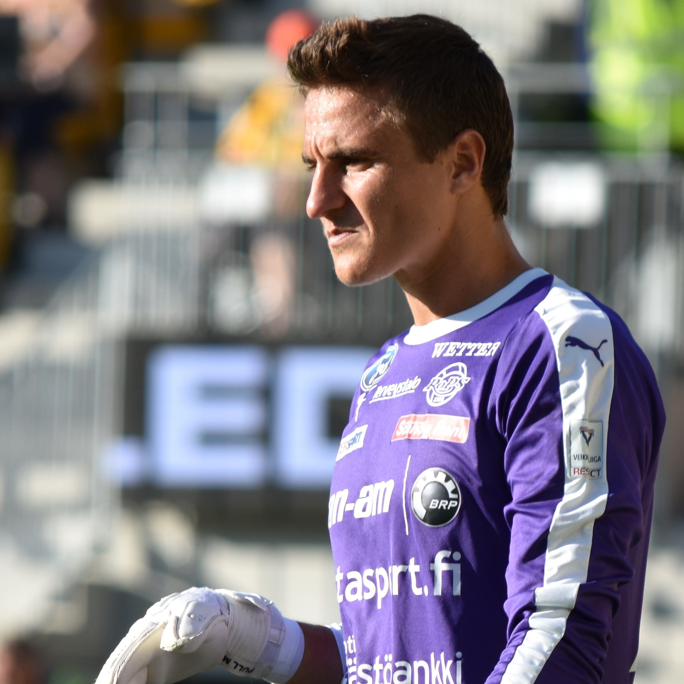 Association football goalkeeper Antonio Reguero (RoPS)